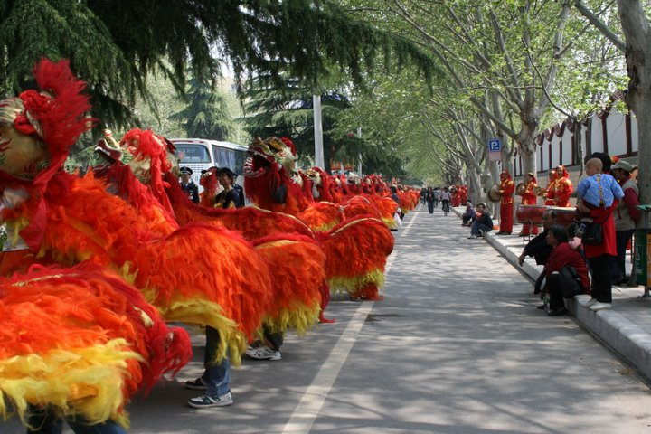 Huangdi Celebrations on the streets of Henan during Chinese New Year 2004.